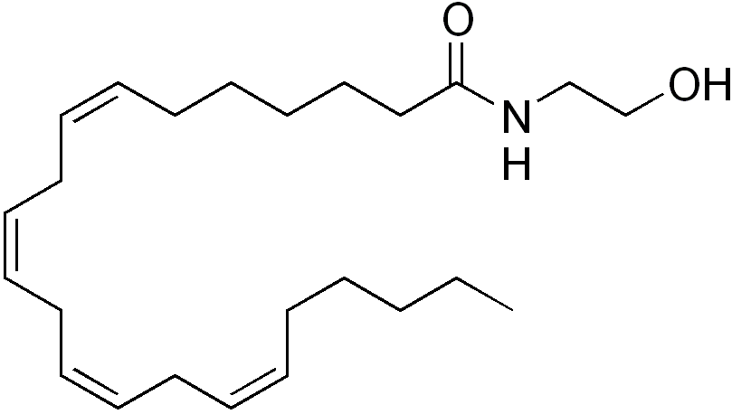 chemical structure of docosatetraenoyl ethanolamide